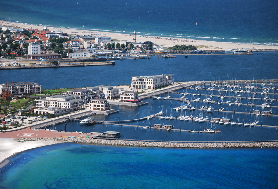 Yacht Harbour Residence "Yachthafenresidenz Hohe Düne" at the Baltic Sea in Rostock (Mecklenburg), Germany